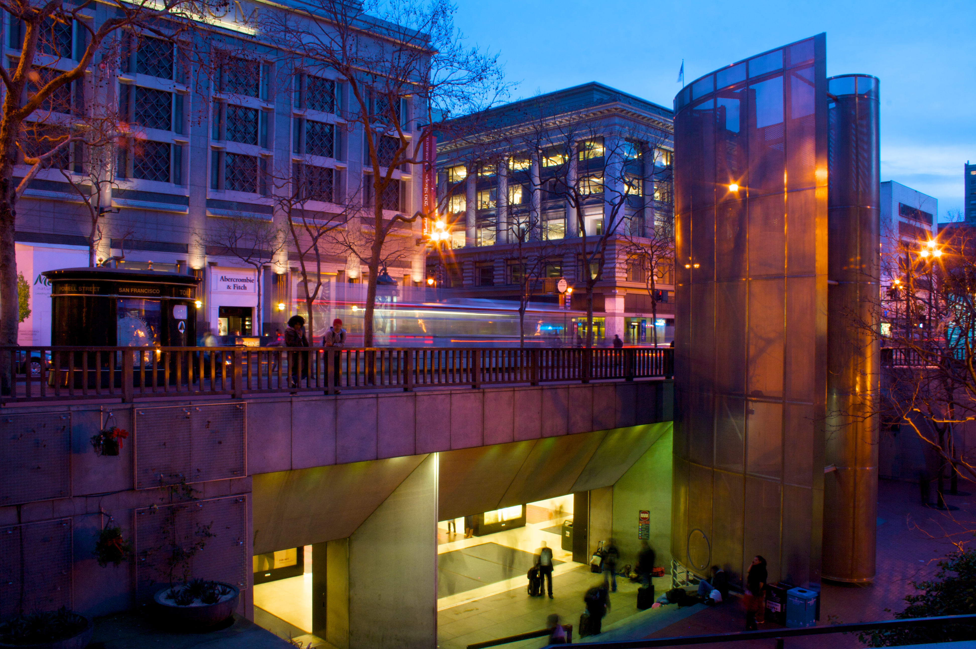 Nearly Sunset